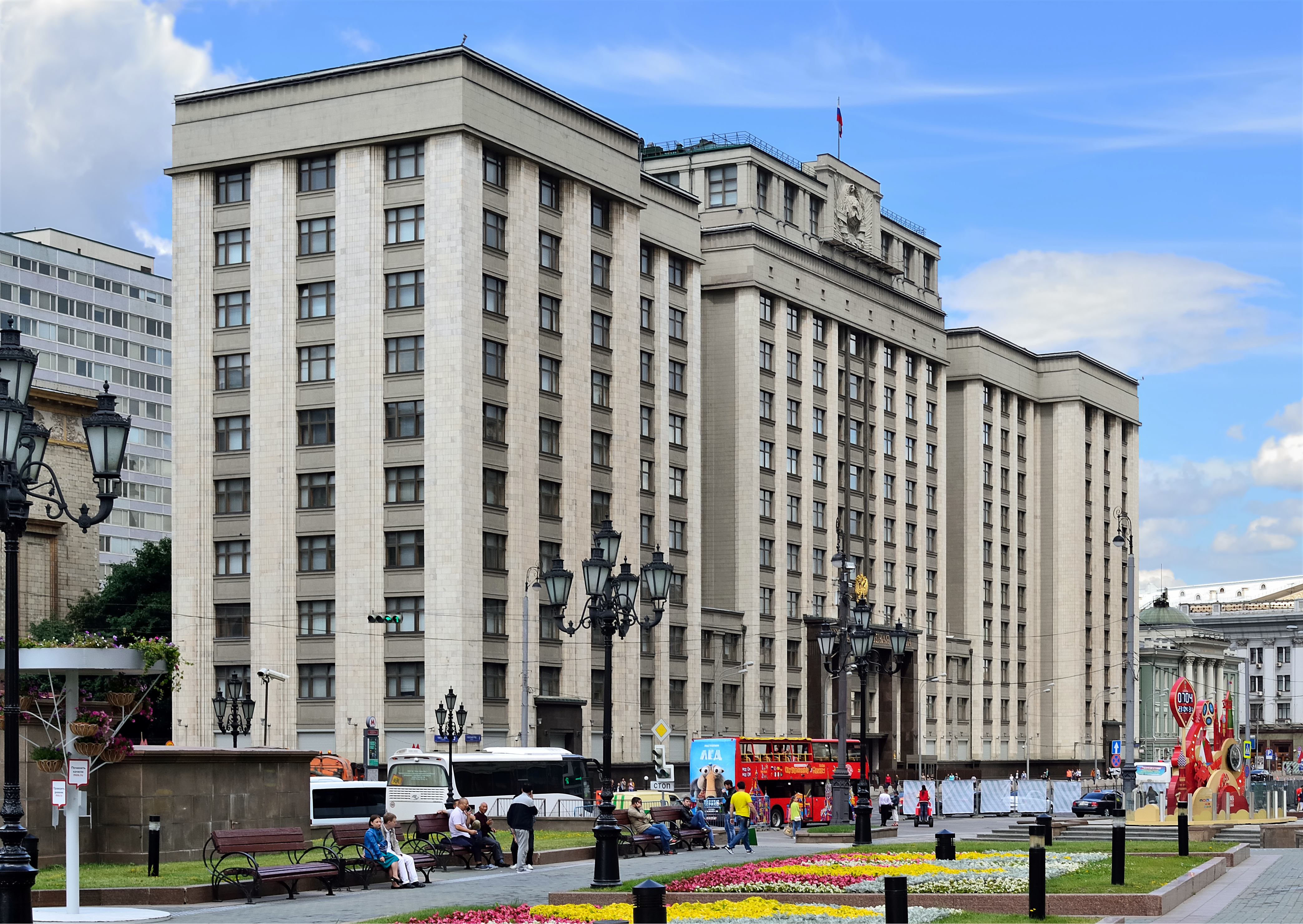 Moscow. The building of the Council of Labor and Defense, currently (2017) — the building of the State Duma. 1935. Architect Arkady Langman. A view from the Manege Square.